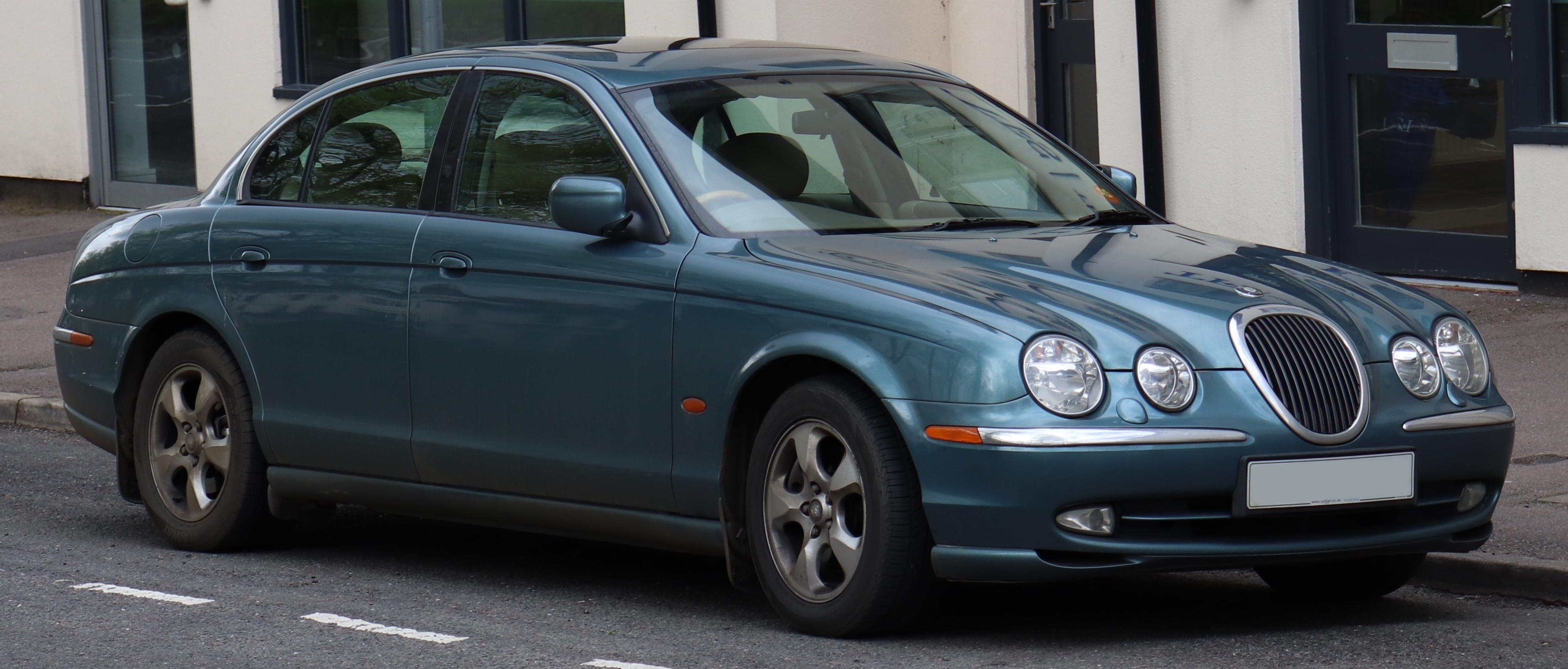 2001 Jaguar S-Type V6 SE Automatic 3.0 Front Taken in Leamington Spa